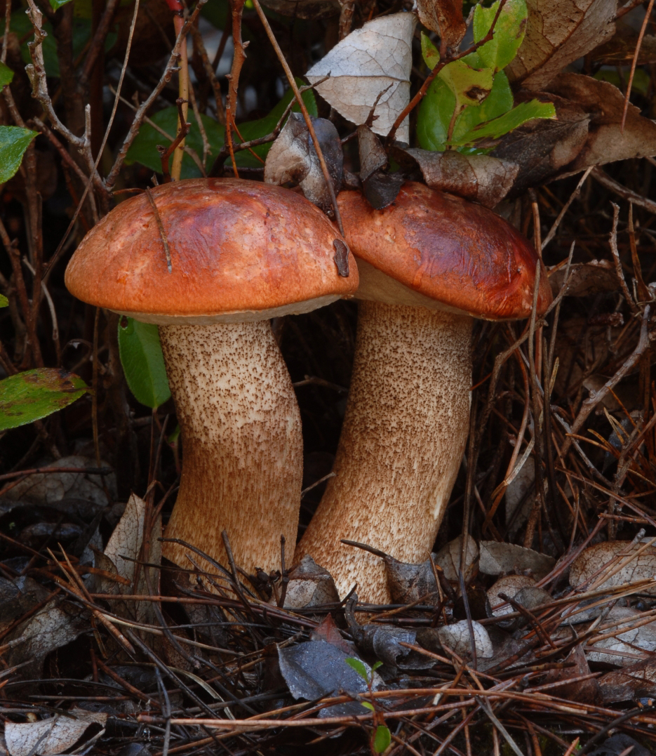 The mushroom Leccinum manzanitae Thiers. Photographed in Mendocino, Mendocino Co., California, USA.